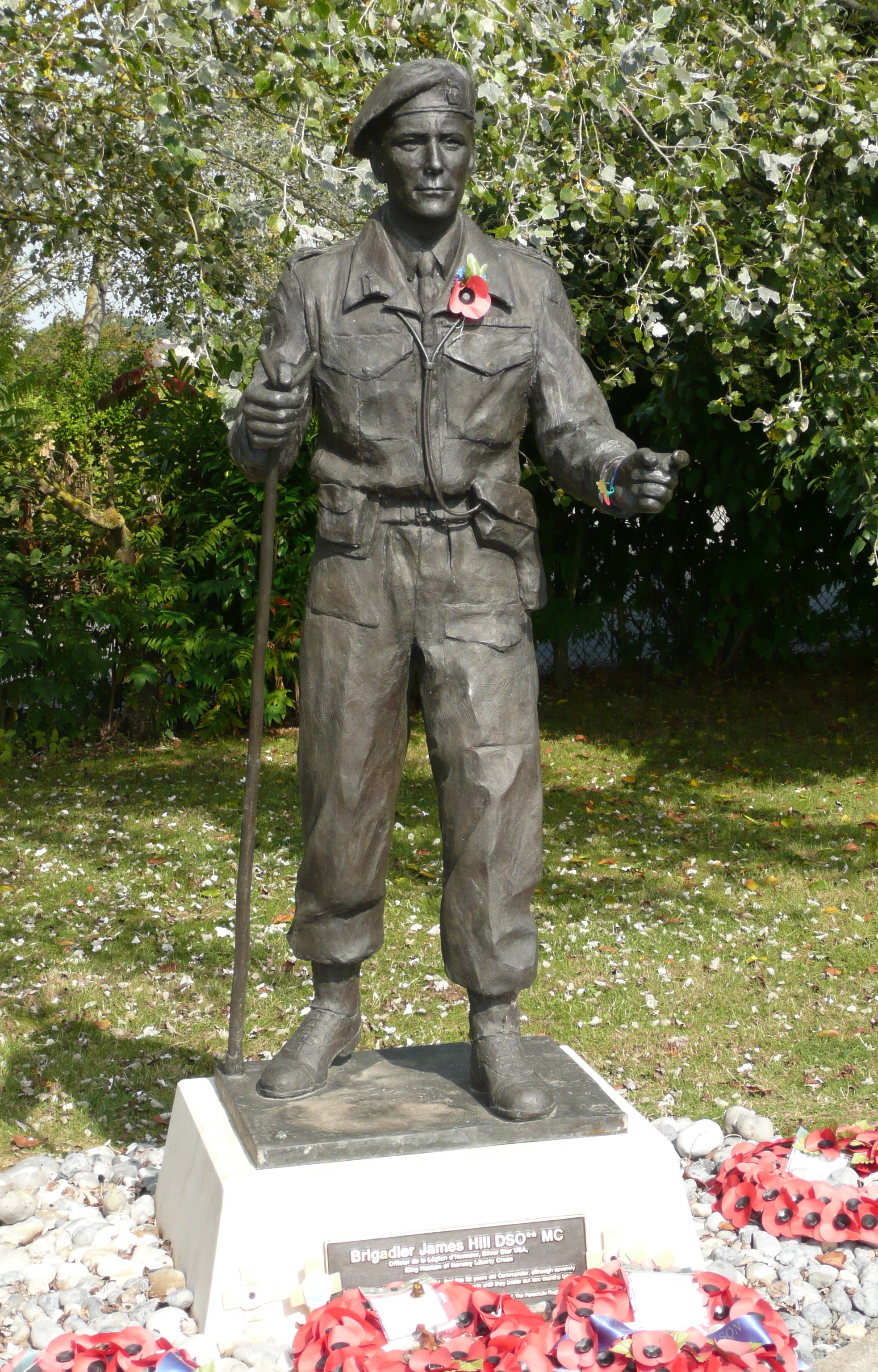 Brigadier James Hill memorial.